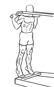 an exercise of calf